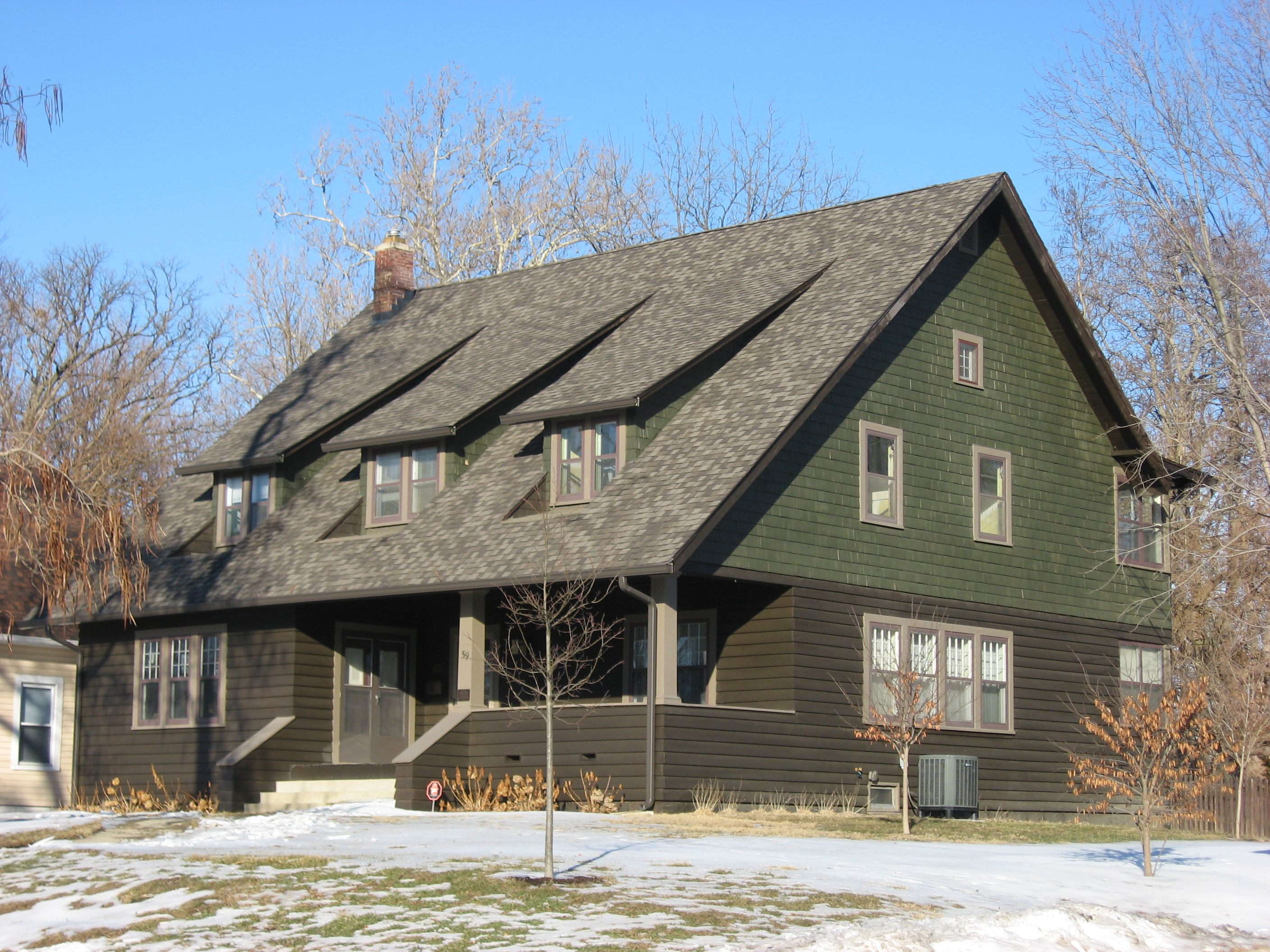 Front of the Carlos and Anne Recker House, located at 59 N. Hawthorne Lane in Indianapolis, Indiana, United States. Built in 1908, it is listed on the National Register of Historic Places.